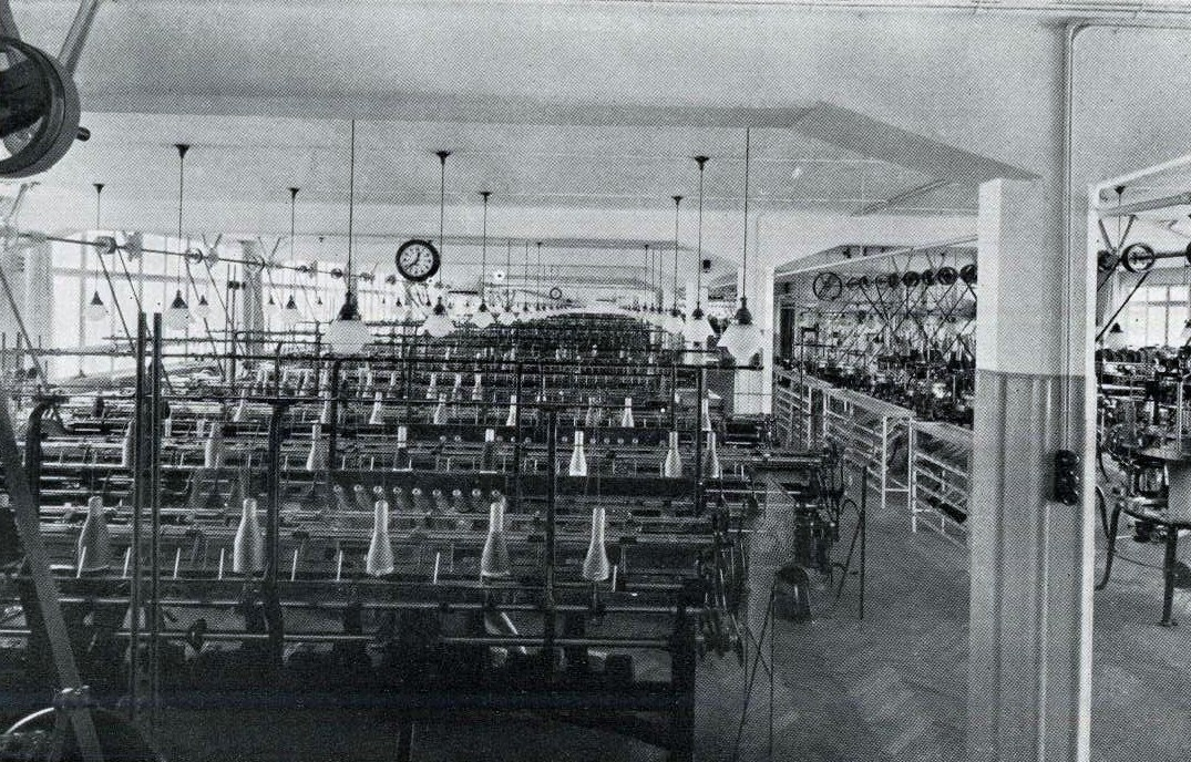 Knitting about 1935